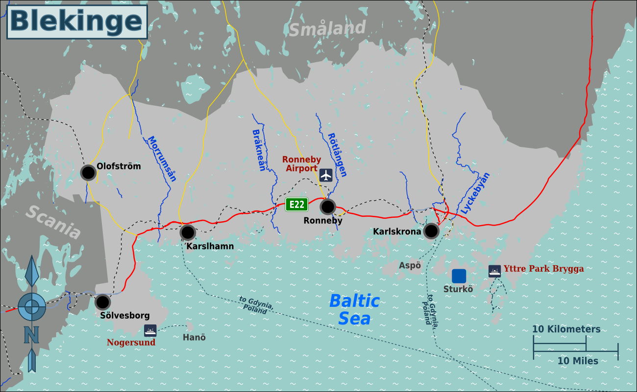 Map of Blekinge.